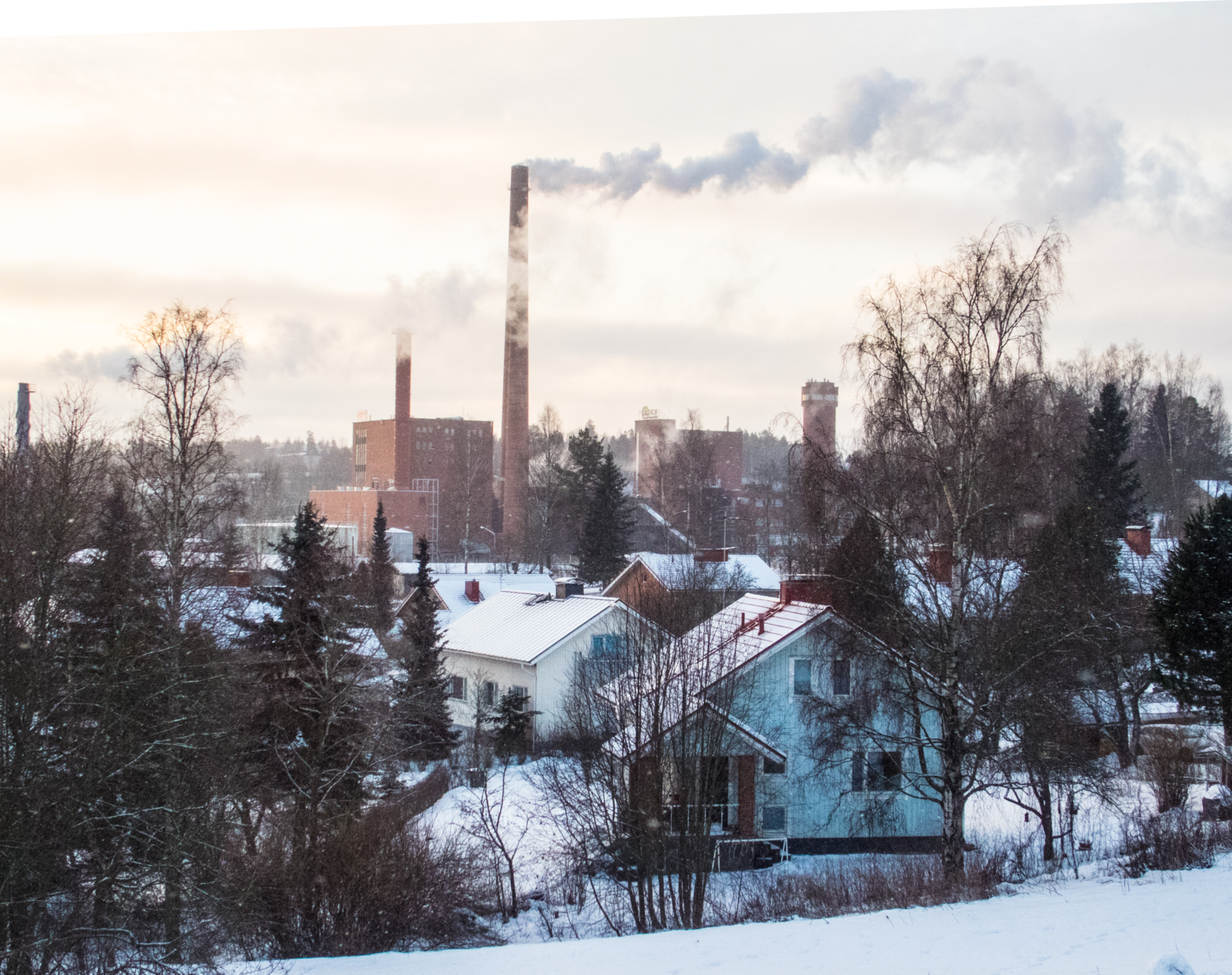 Nokian Paperi, formerly known as Fort James Suomi Oy, Georgia Pacific Finland Oy and Georgia-Pacific Nordic Oy. In 2015 owned by SCA.